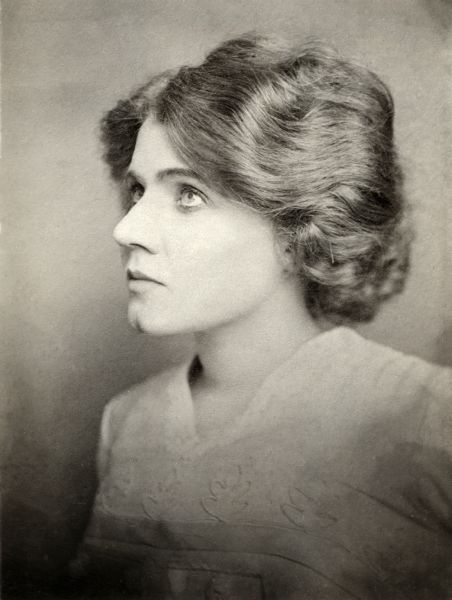 Bioscope actress Florence Lawrence, c. 1908.